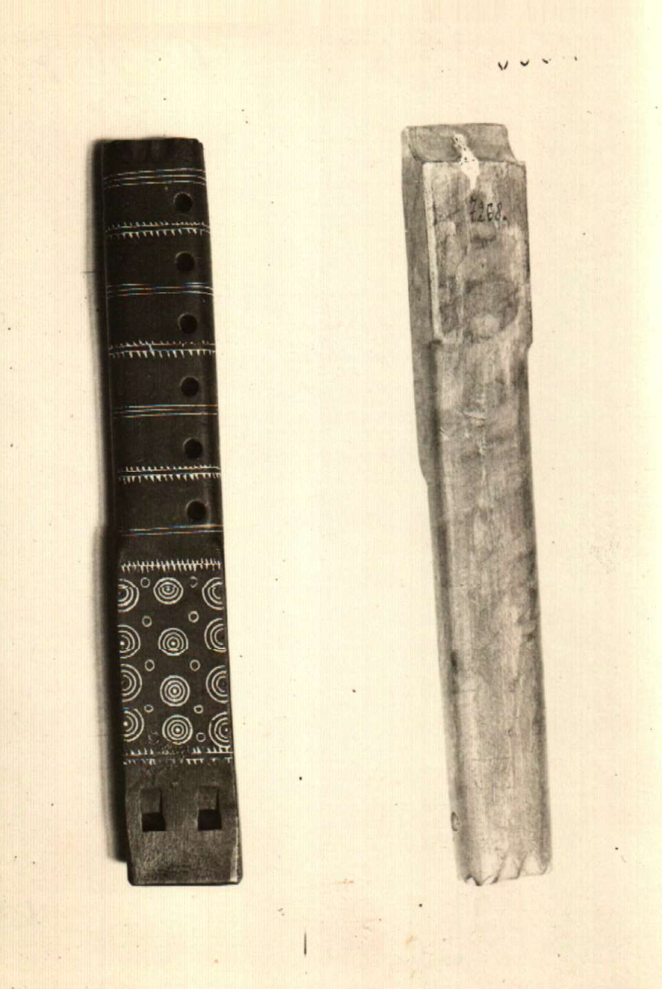 Dvoyanka from Bulgaria